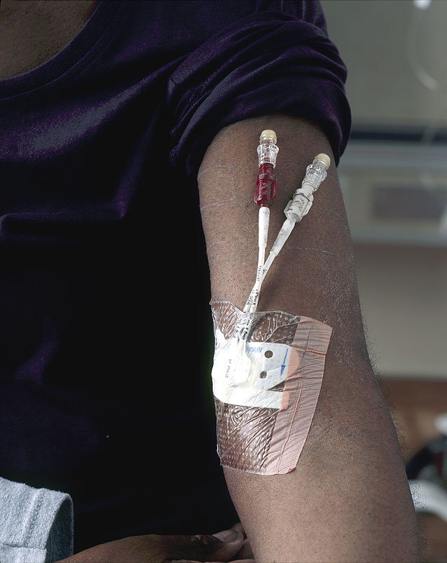 Title Catheter for Chemotherapy Description A close-up view of a catheter (a soft thin tube) placed in an African-American woman's arm to deliver chemotherapy. For a close up image see: Topics/Categories Treatment -- Chemotherapy Type Color, Photo Source National Cancer Institute